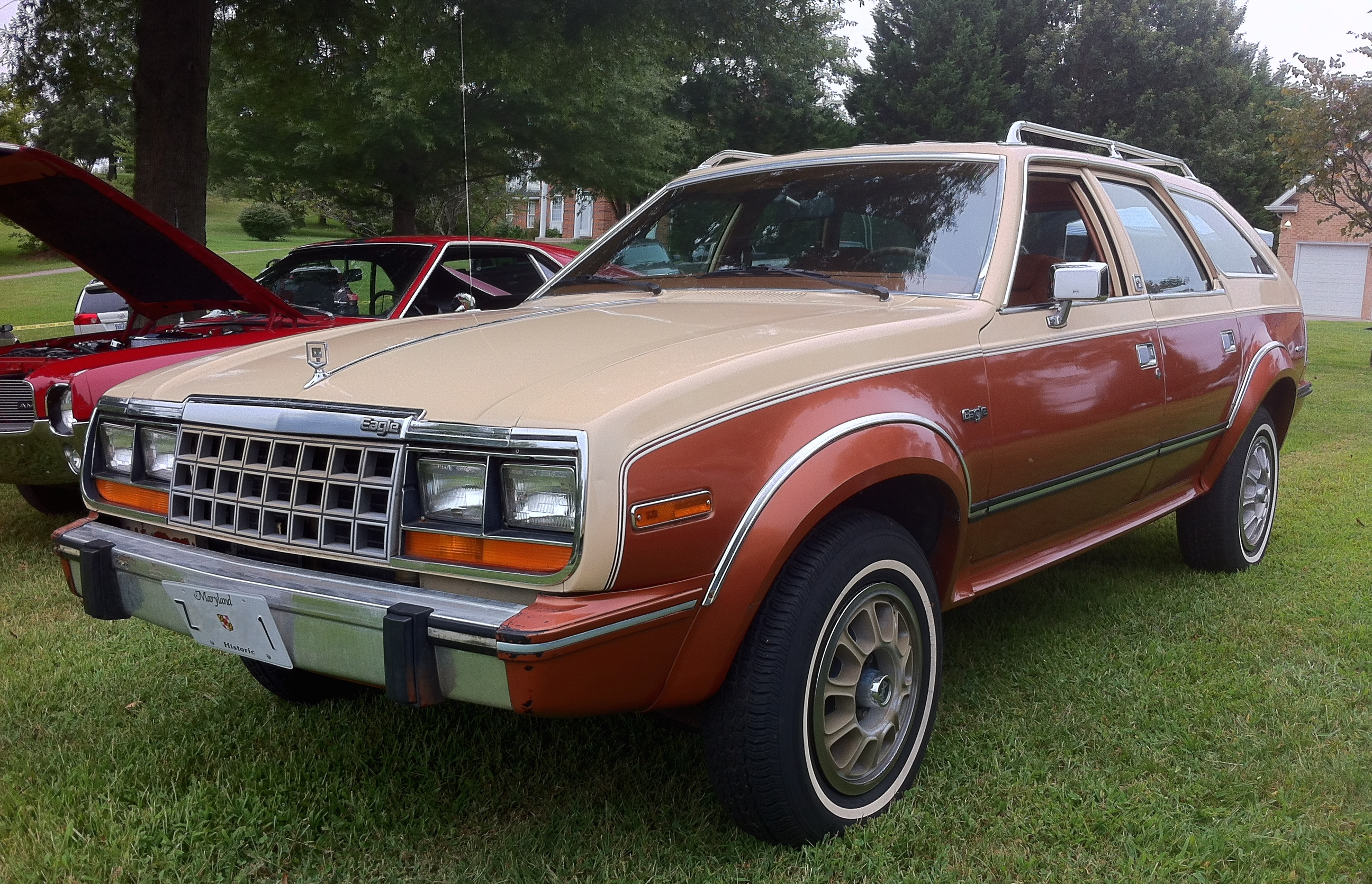 1982 AMC Eagle 4-door station wagon in a two-tone exterior. An innovative automatic all-wheel-drive vehicle made by the American Motors Corporation (AMC)